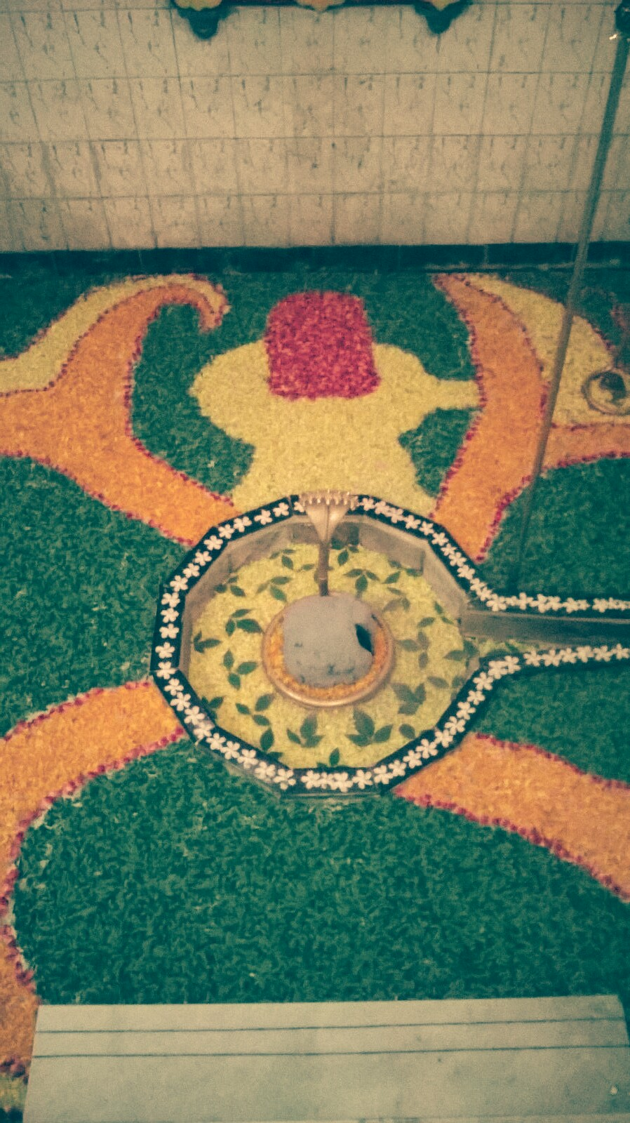 Har Har Bhole